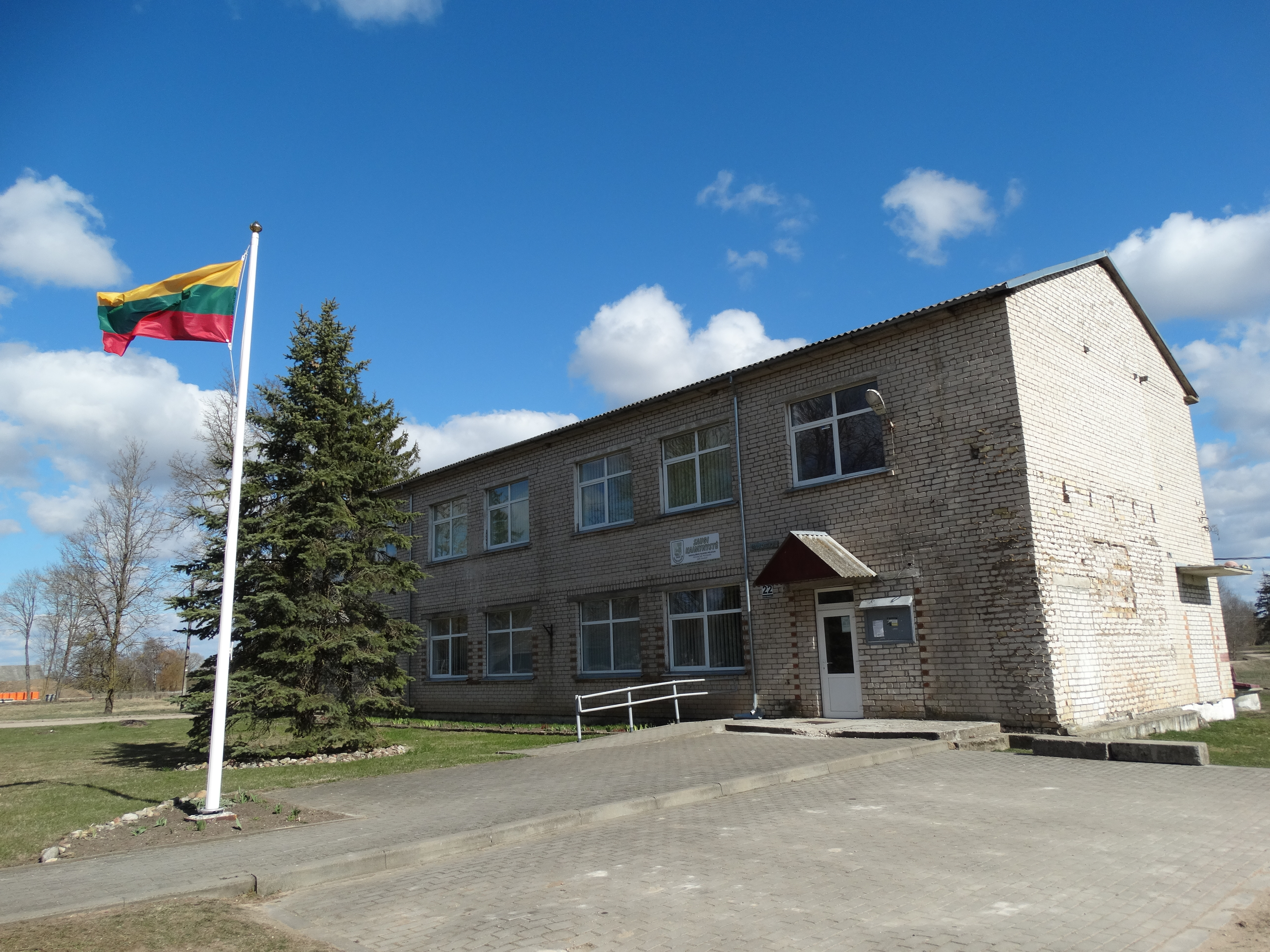 Library, Vadaktai, Radviliškis district, Lithuania